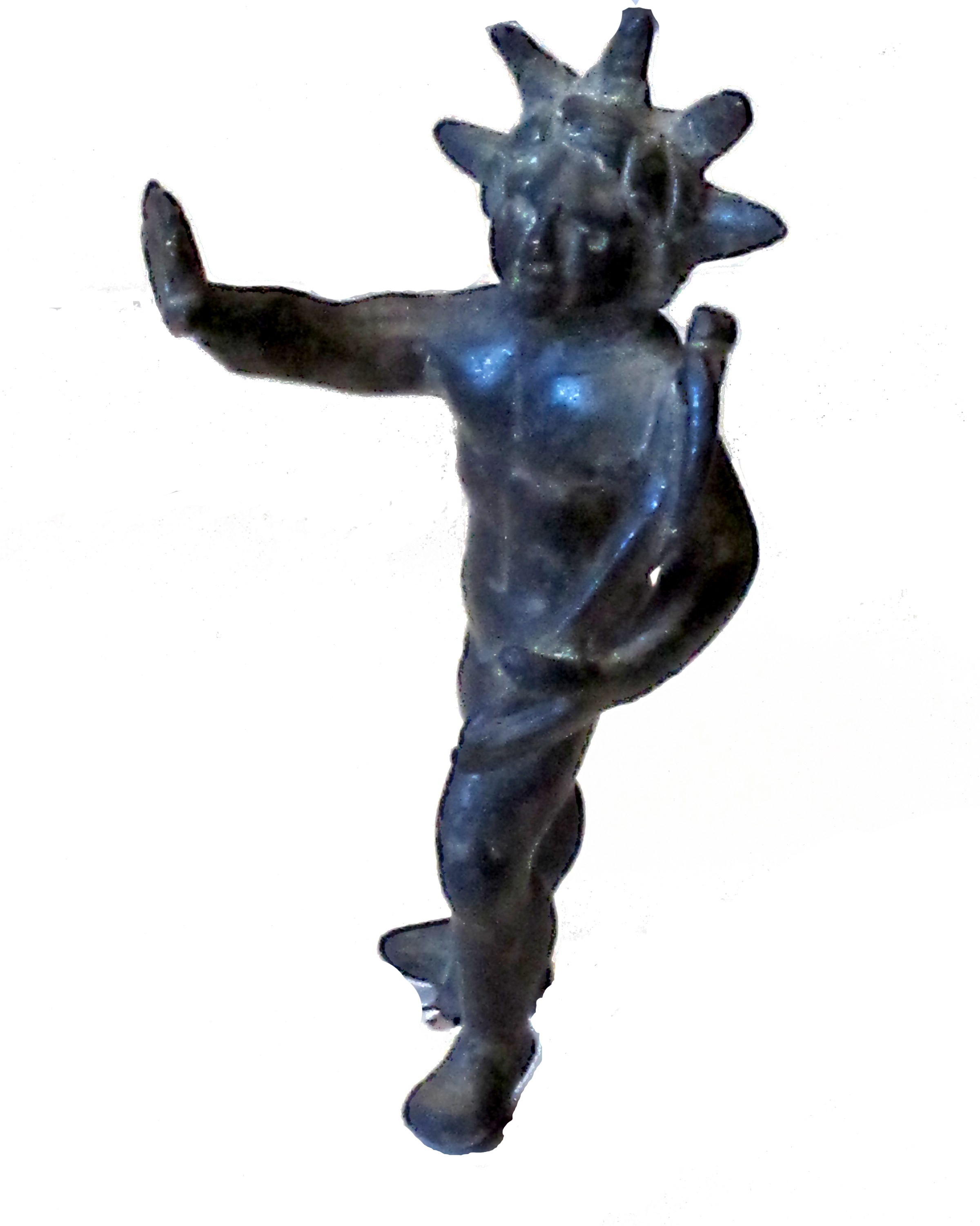 Sol Invictus statue in Milan Archeology Museum